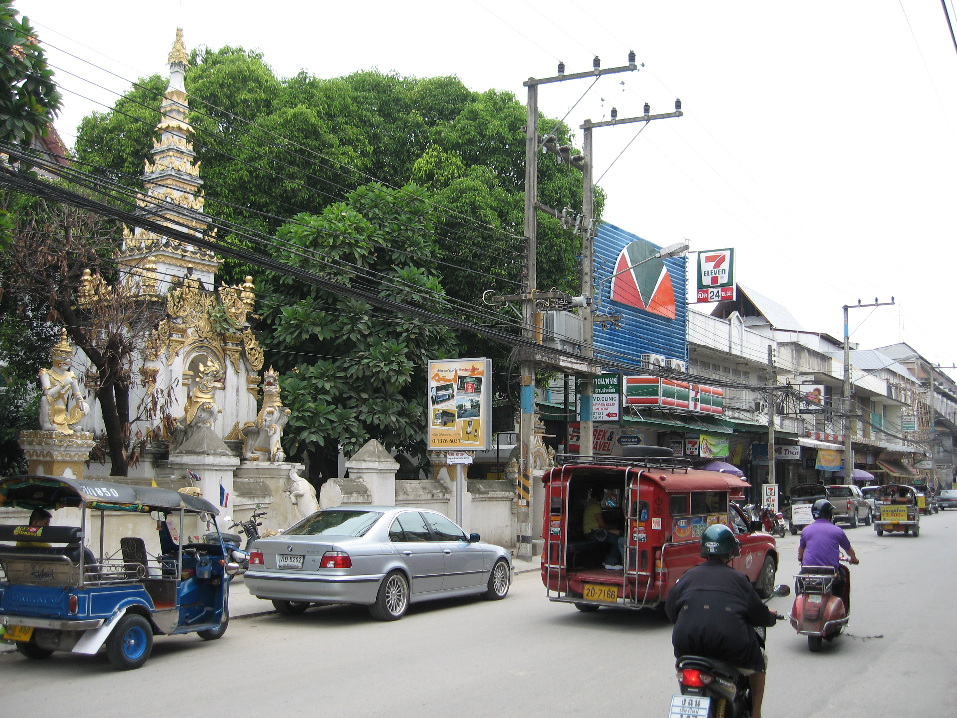 View of Tapae Road with part of Wat Mahawan, Chiang Mai